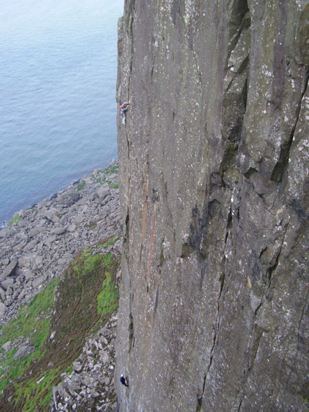 Climbers on the second pitch of Jolly Roger (grade E3/6a) at Fair Head